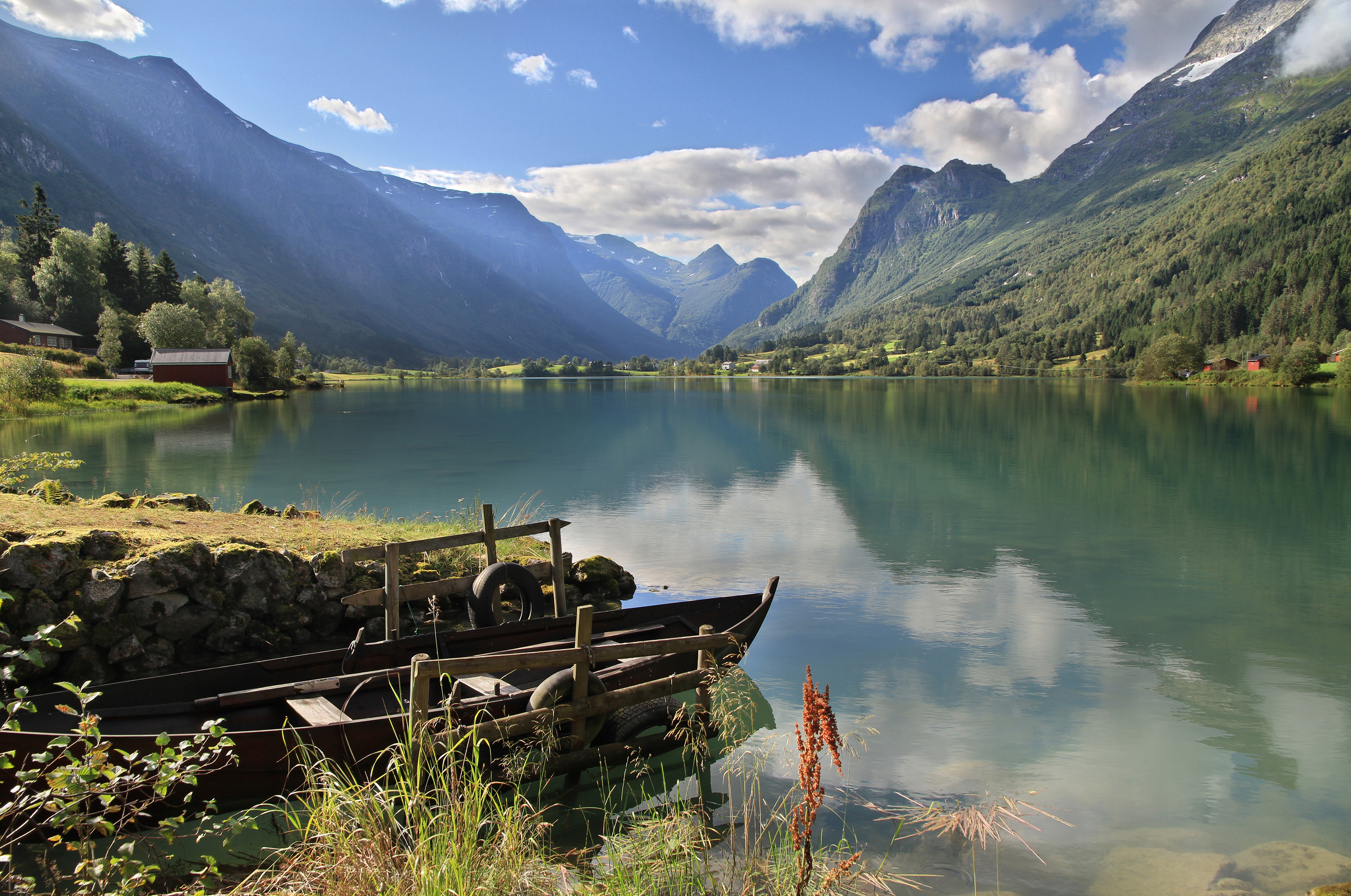 Floen lake in Oldedalen, Stryn, Sogn og Fjordane, Norway in 2011 August.